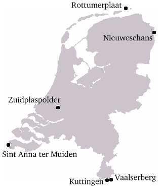 Map of the extreme points of the Netherlands. Made by User:Eugene van der Pijll, using a map by User:Mtcv.